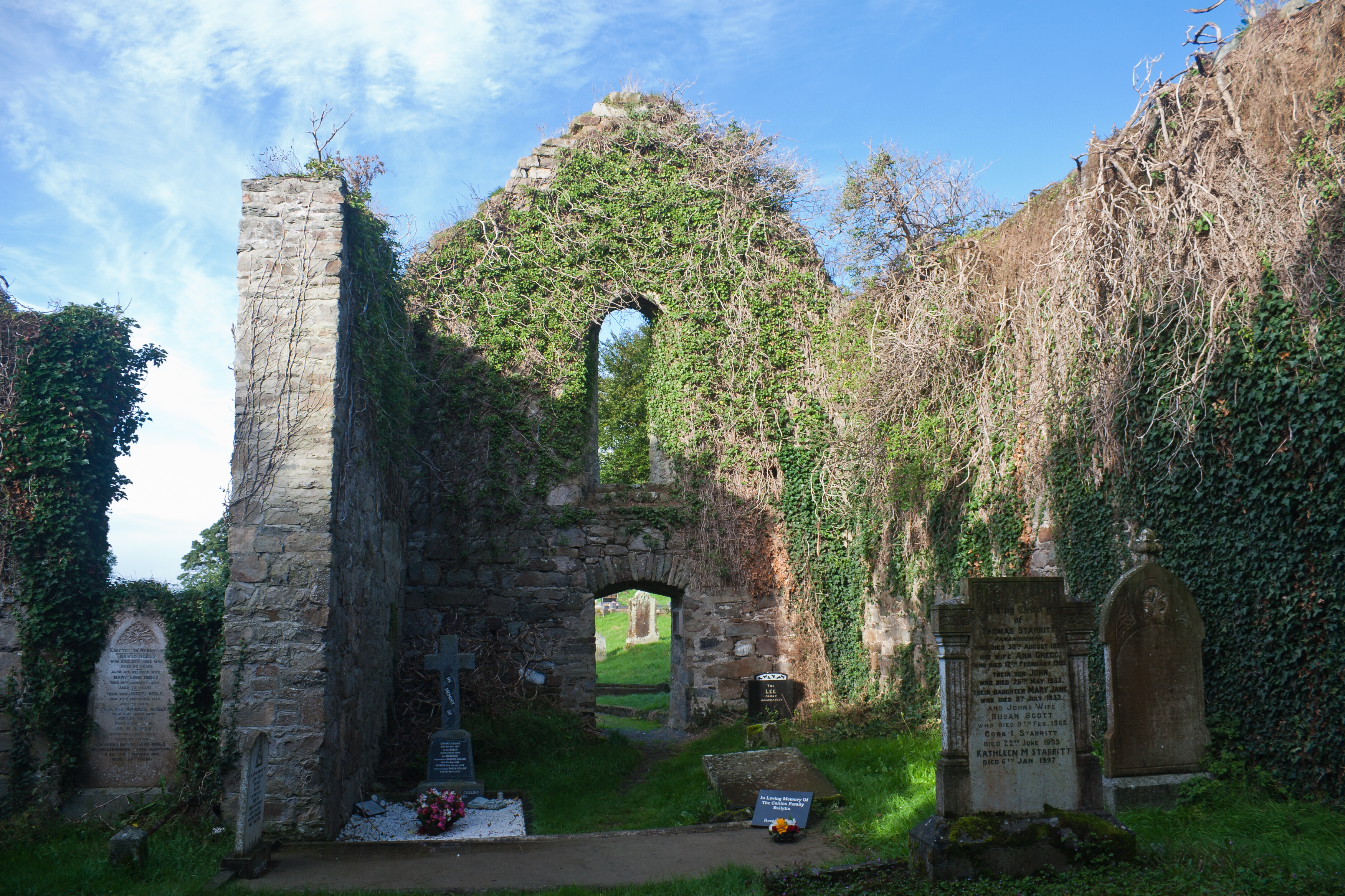 Nave, looking west.